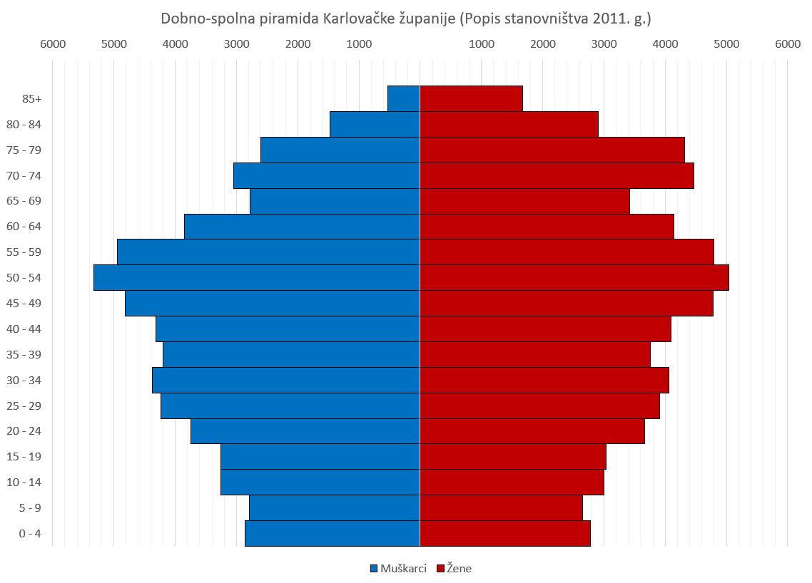 Population pyramid of Karlovac County. Version in Croatian. Data from 2011 Census; available at